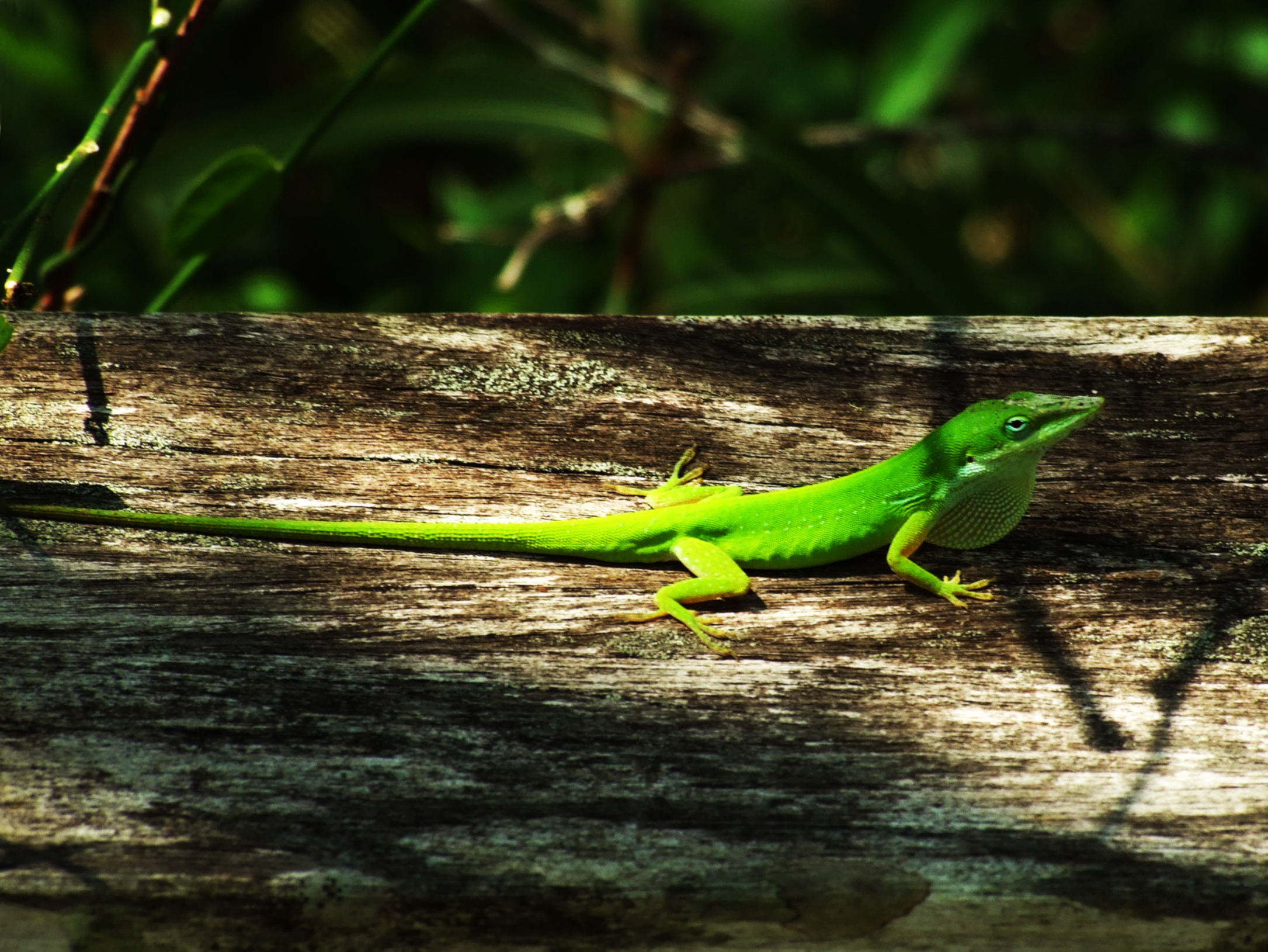 Anolis carolinensis, this is an example for the article Kontrast